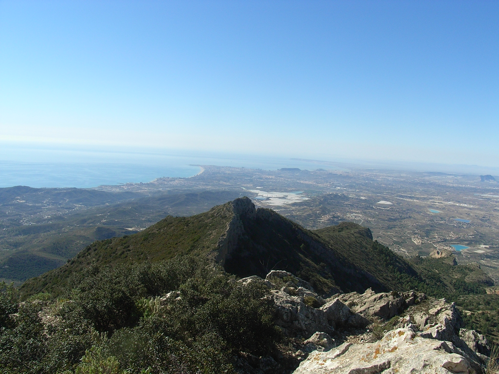 View to the south from the top of Cabeçó d'Or (we can watch El Campello, San Juan, Alicante, San Vicente del Raspeig...).